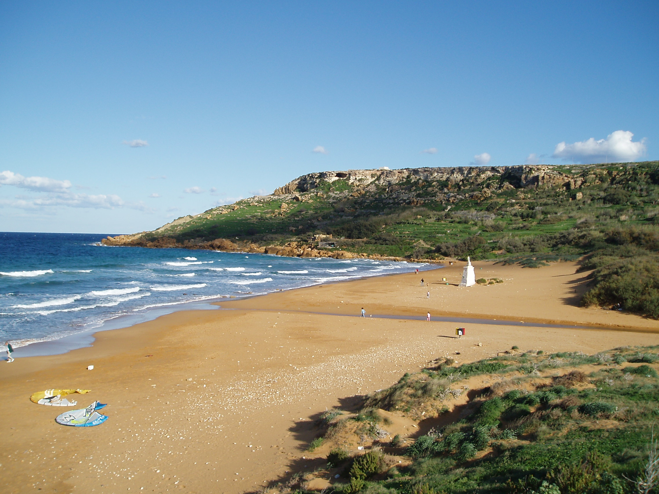 Ramla Bay, Gozo, Malta. Taken from the western cliff.